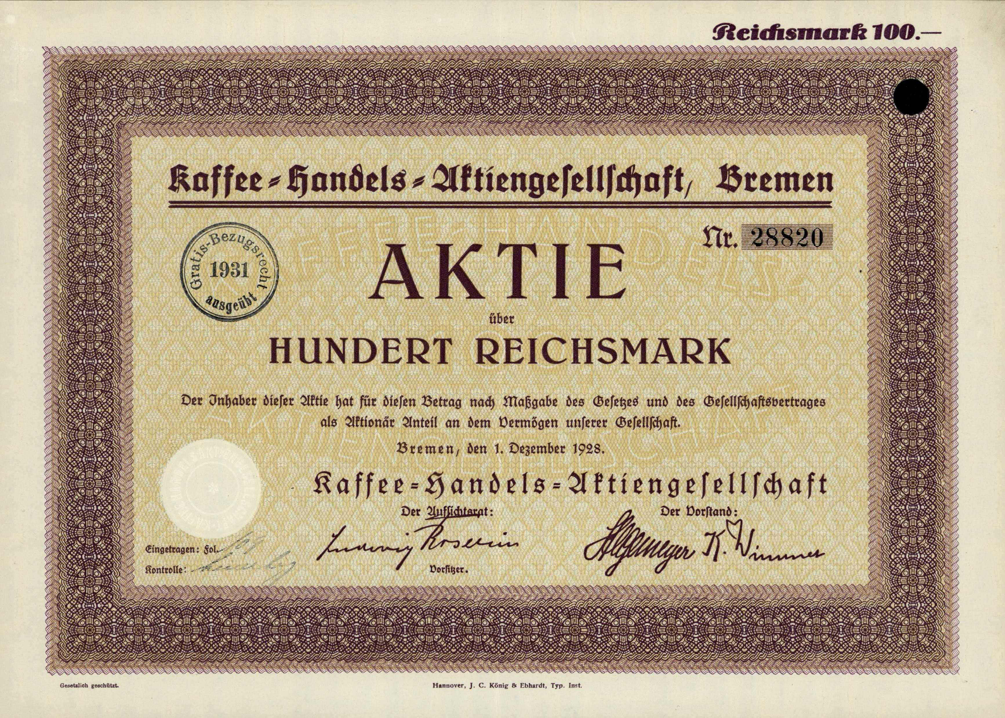 Share of the Kaffee-Handels-AG, issued 1. December 1928